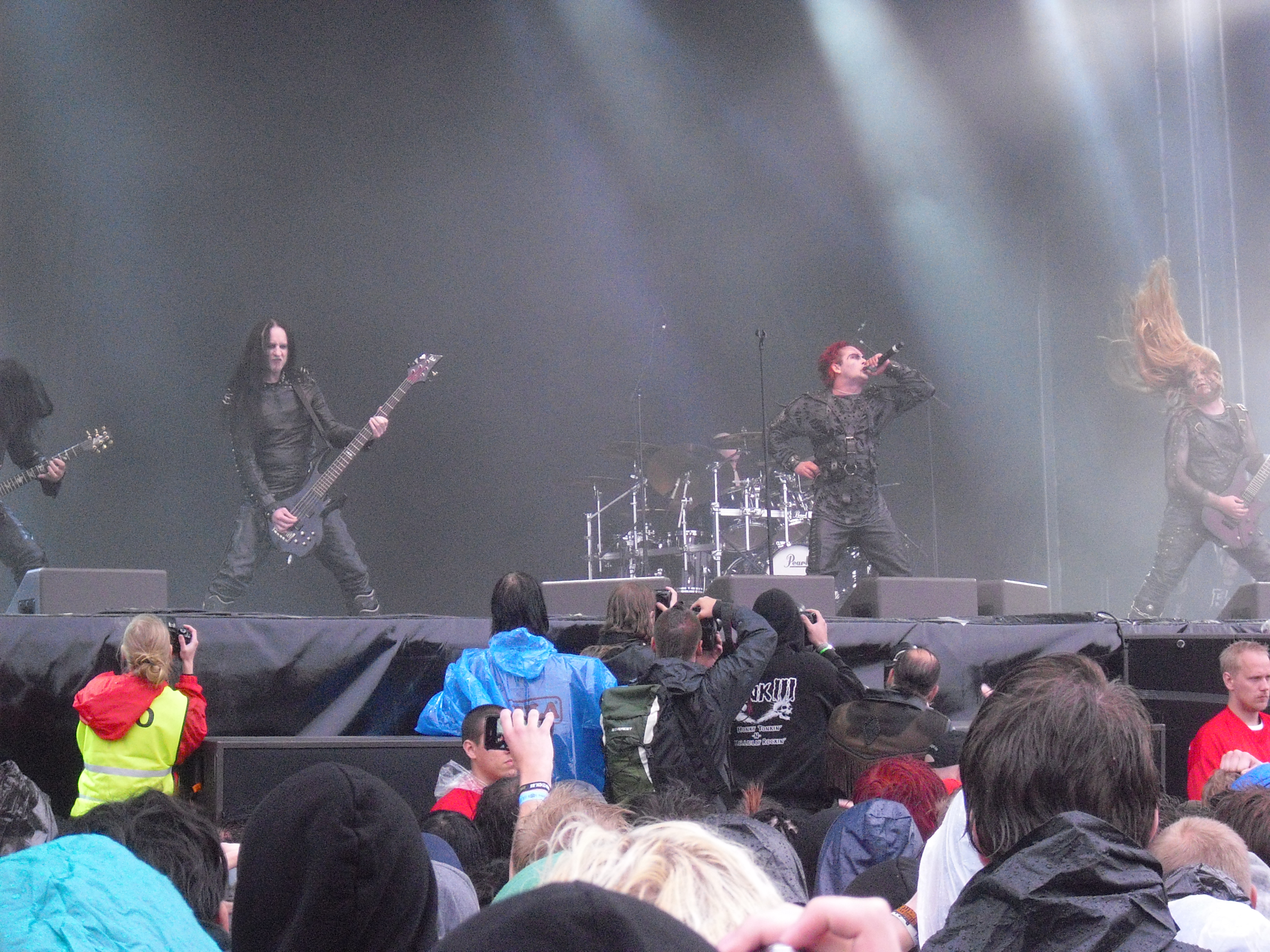 Cradle of Filth performing live at Metaltown Festival 2011